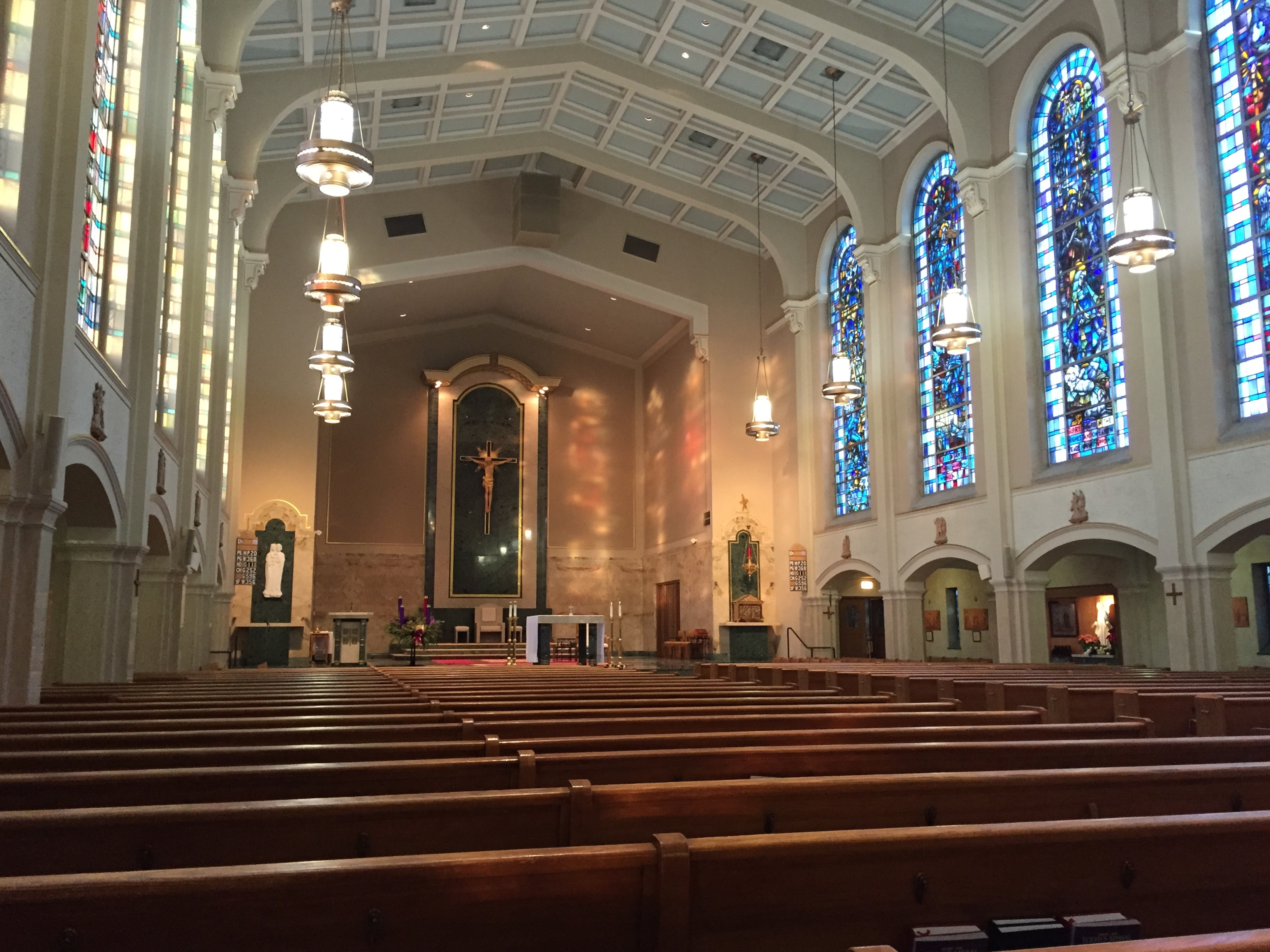 The interior of St Peter's Cathedral is seen before Saturday evening Mass, Dec 2014